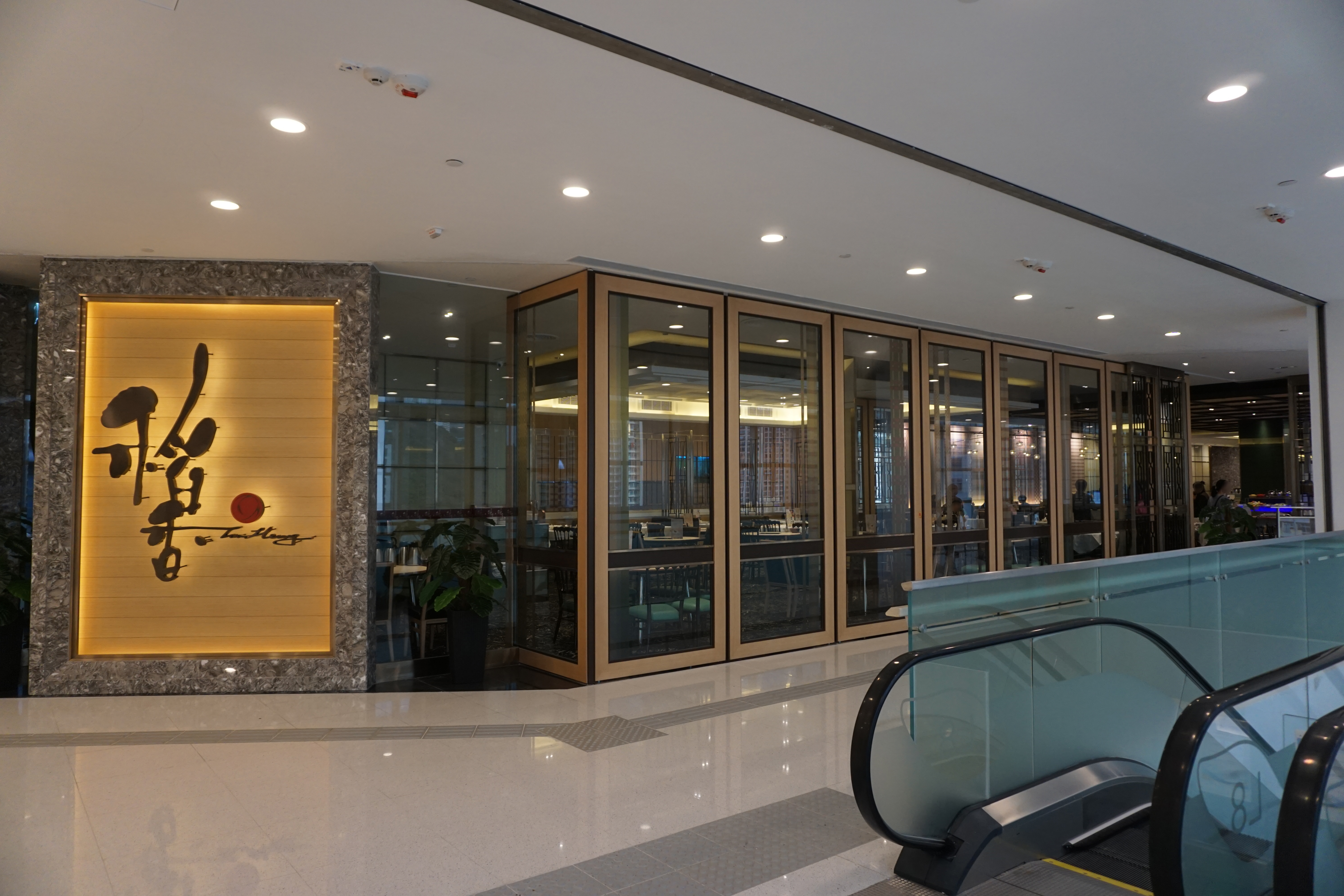 Tao Heung Restaurant in Telford Plaza, Hong Kong.